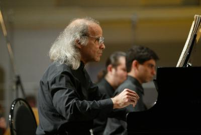 Martin Berkofsky. Photograph taken in Moscow, March 2004. From